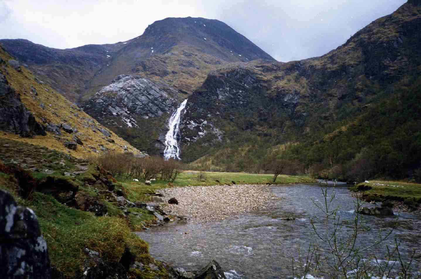 Personal photograph taken by Mick Knapton